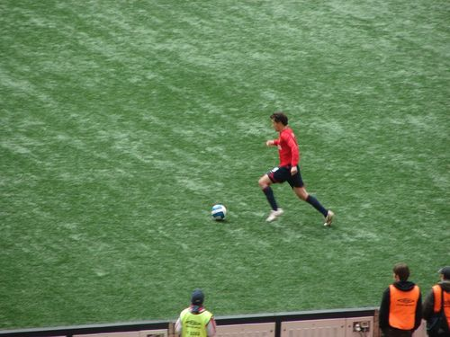 Yury Zhirkov. 2007 Russian Football Premierleague (PFC CSKA Moscow v.s. FC Saturn)